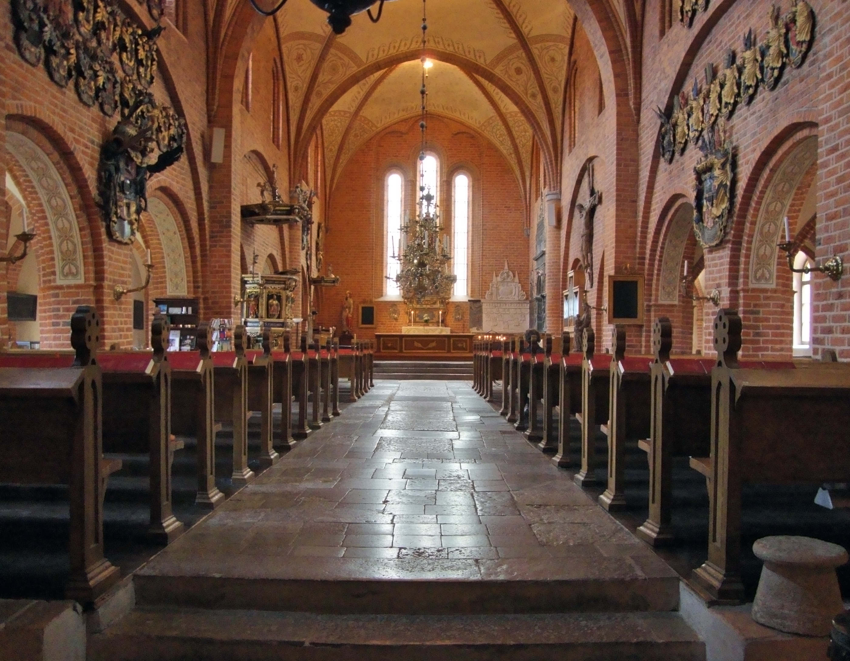 The interior of Skokloster church near Skokloster Castle in Uppland, Sweden.